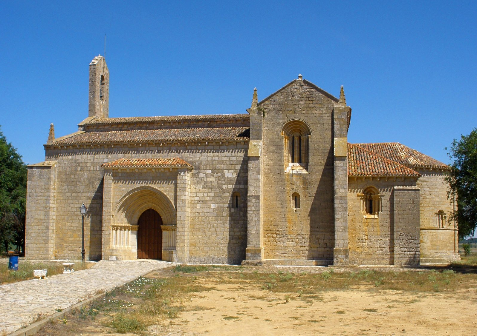 Ermita de Nra. Sra. de las Fuentes, en Amusco (Palencia, España)